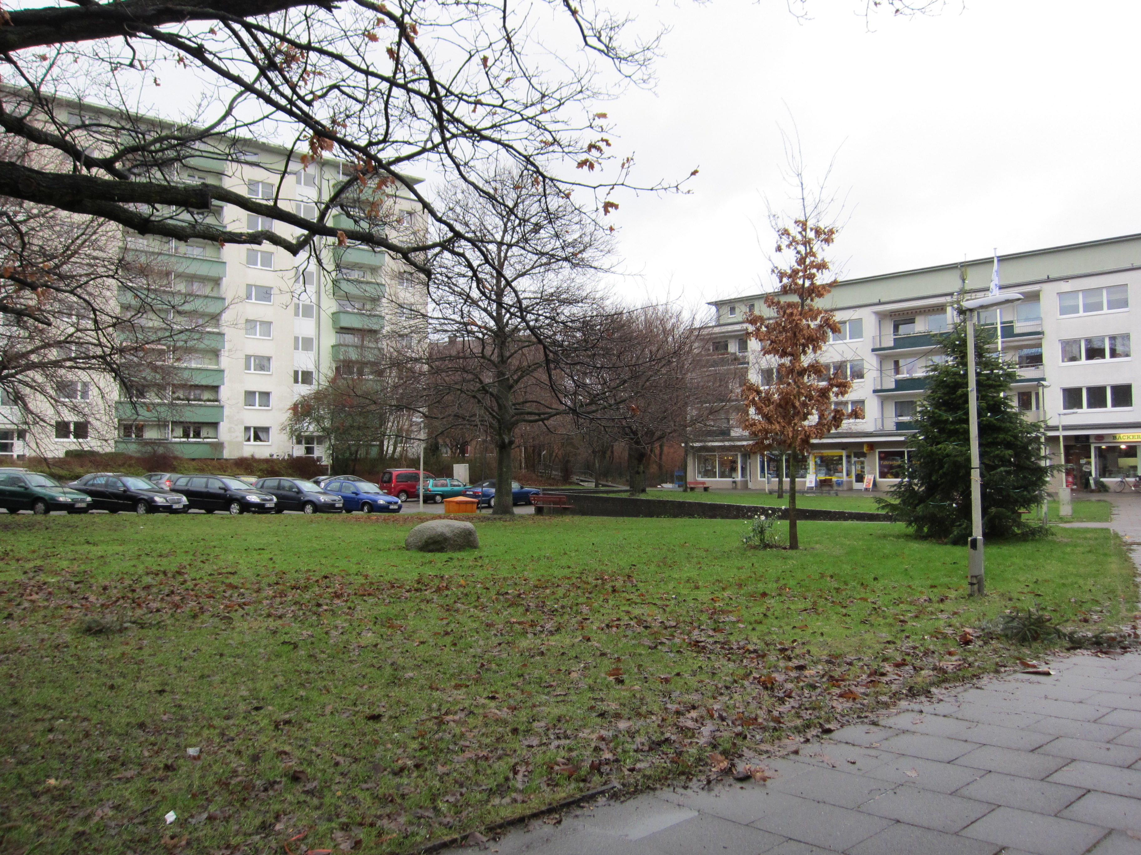 Eckenerplatz, Kiel-Holtenau